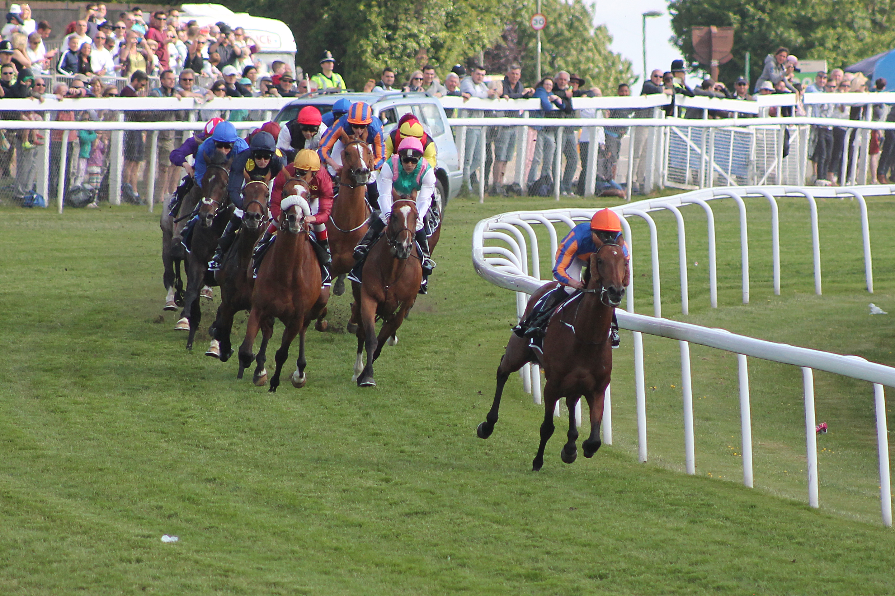 046 Epsom Derby 2015 - The field rounding Tattenham Corner led by Hans Holbein Epsom Derby